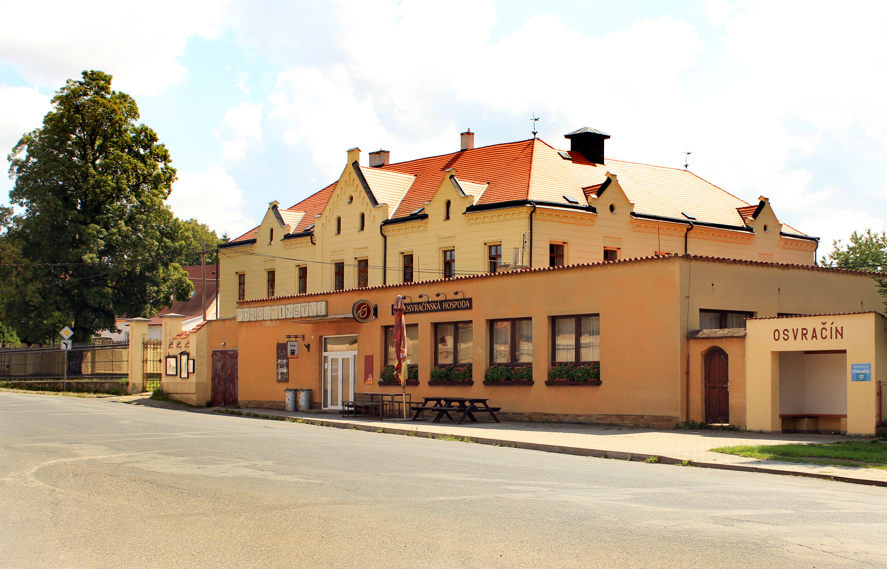 Restaurant in Osvračín village, Czech Republic.